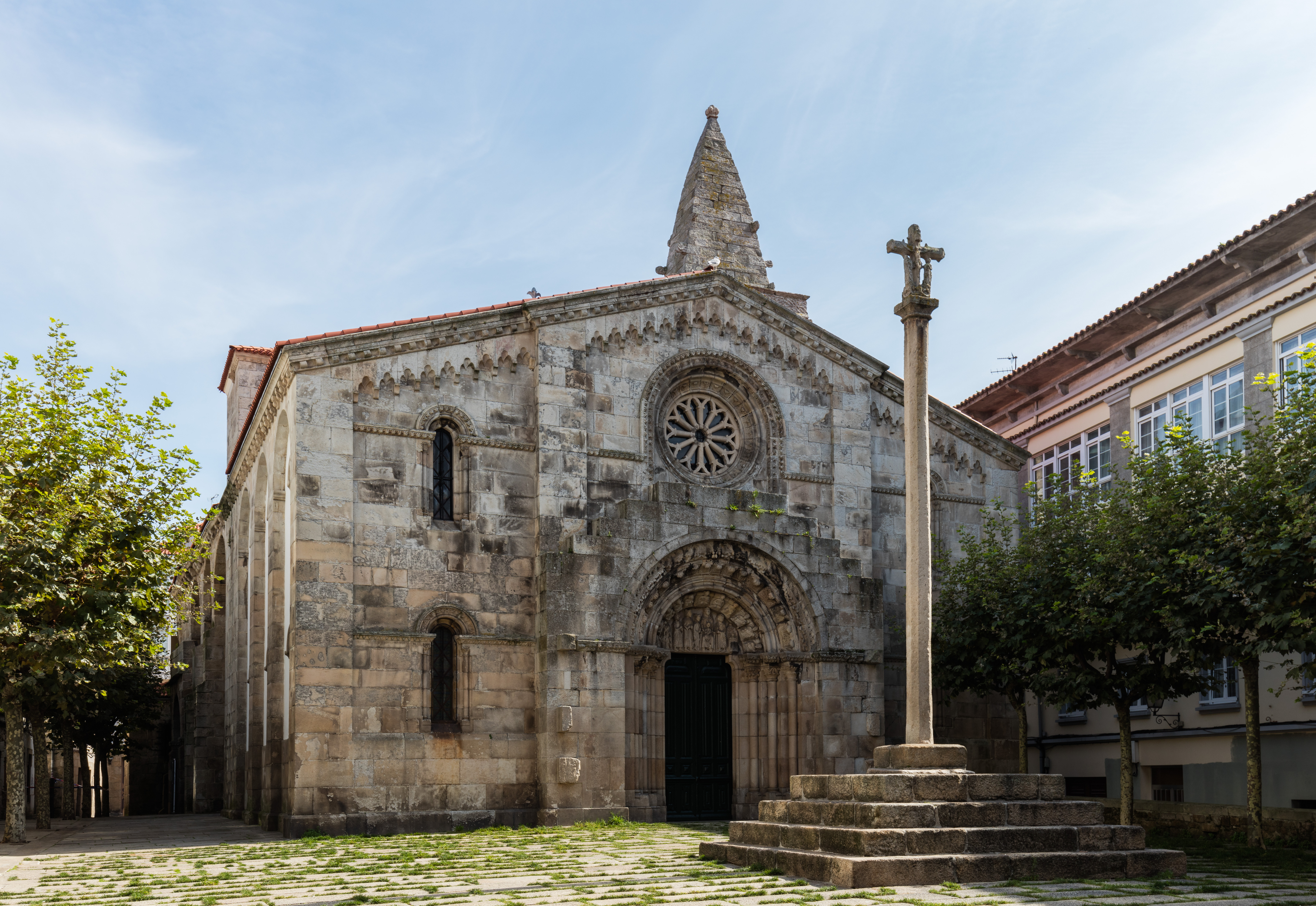 Collegiate of Santa María del Campo, La Coruña, Spain